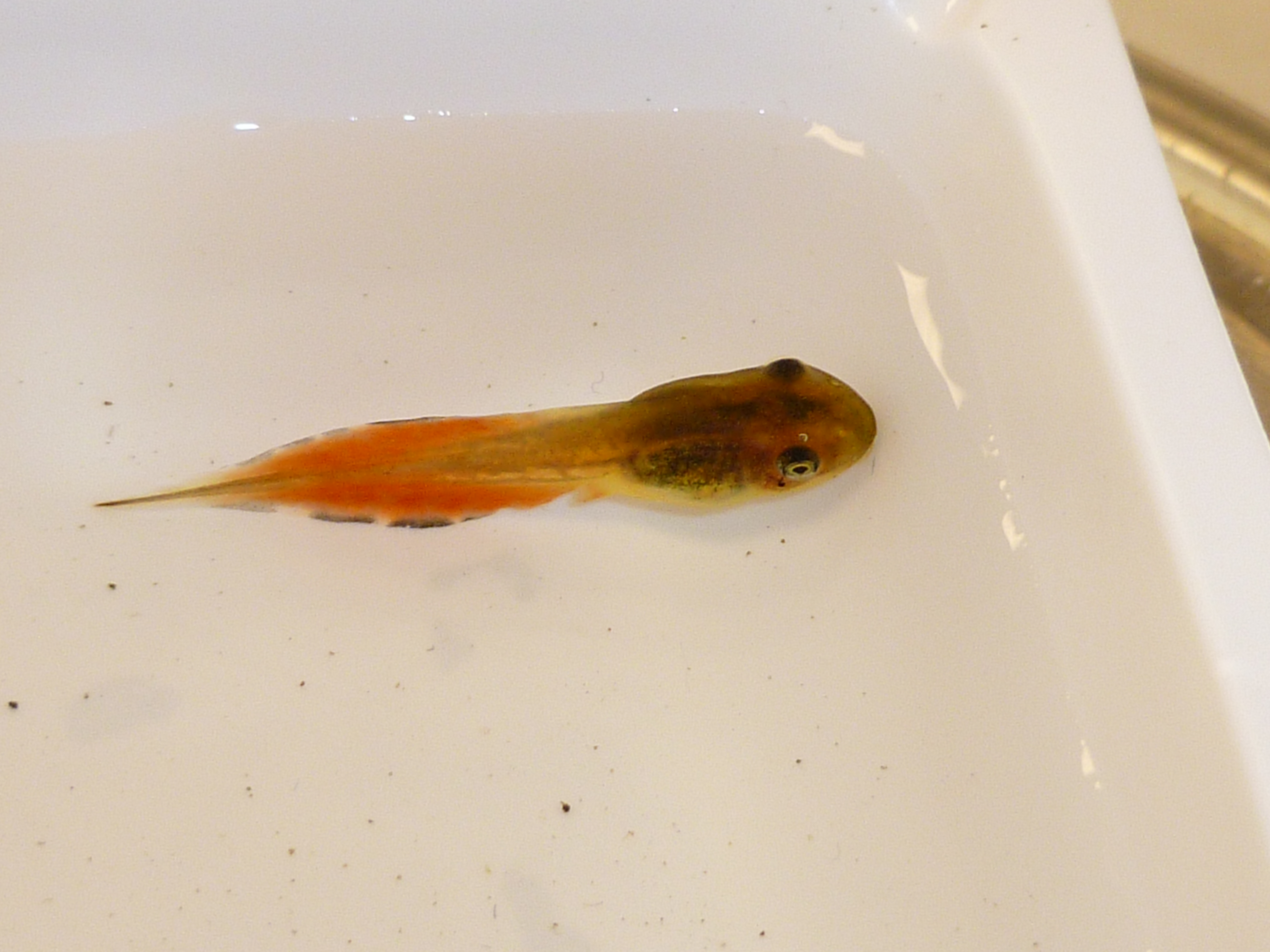 Pinewoods tree frog (Hyla femoralis) tadpole with red tail. The red tail phenotype is induced by the presence of dragonfly larvae, an important predator of tadpoles.